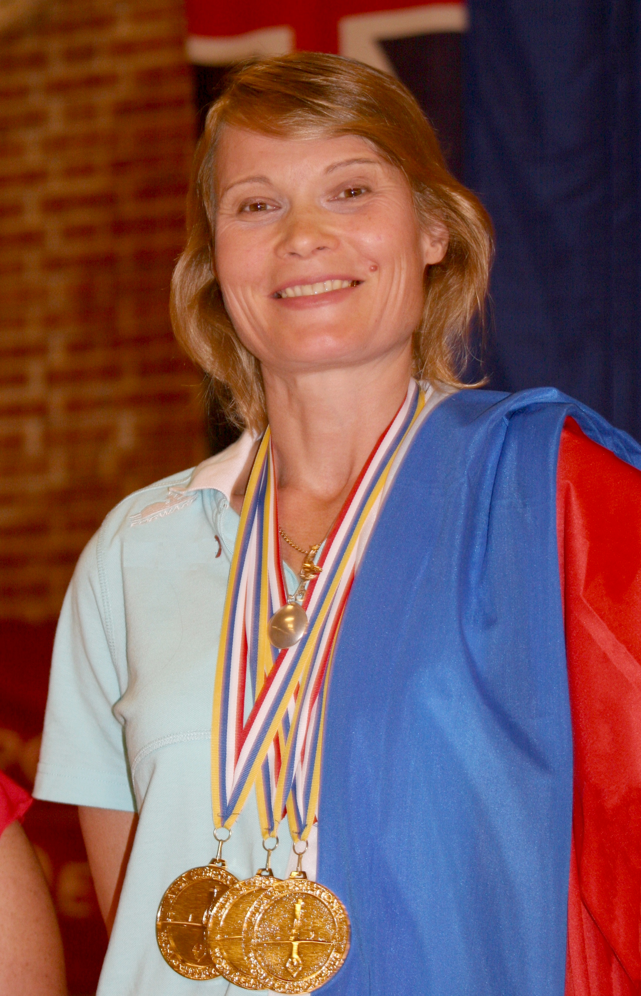 Molchanova Natalia, Danmark, Aarhus, 5th Individual freediving World Championship, 2009